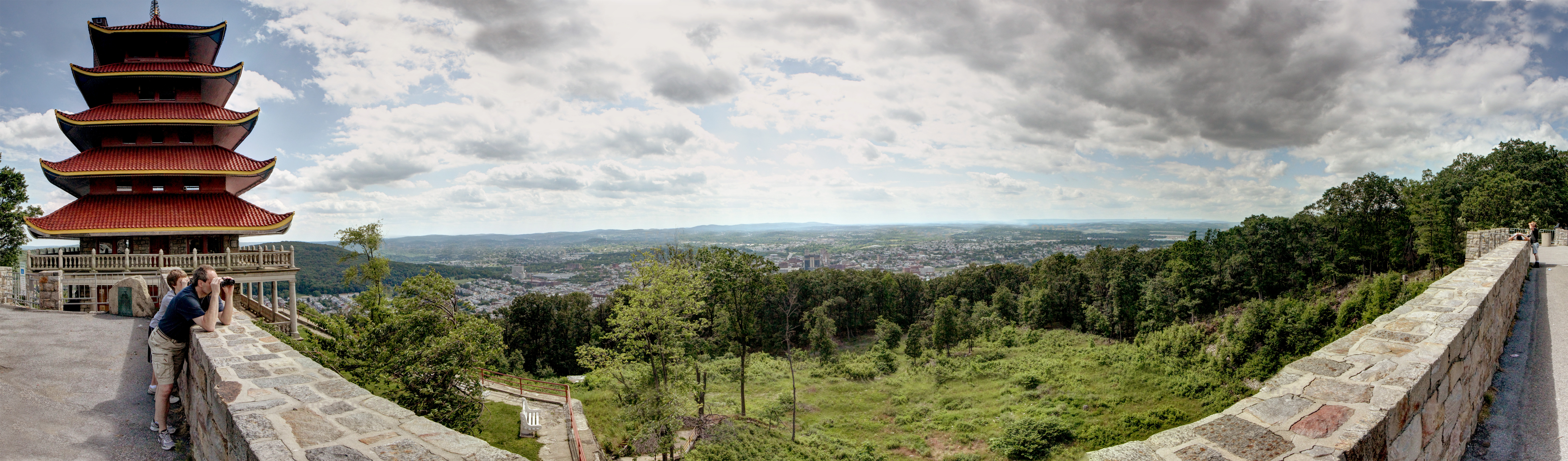 Panorama of the Pagoda located in Reading, Pennsylvania.